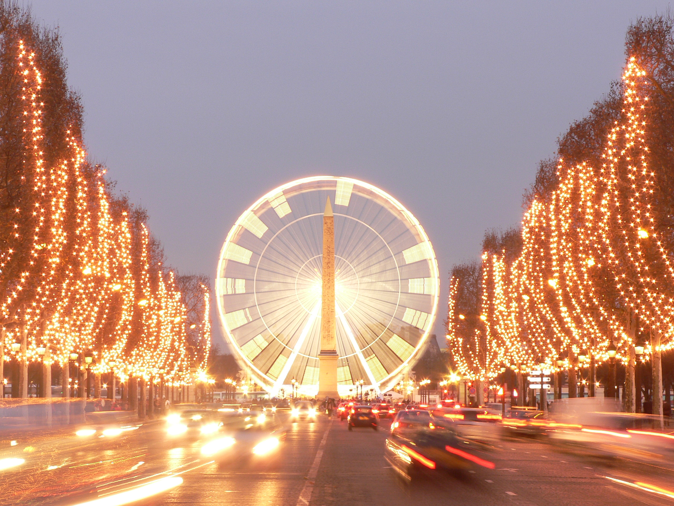 Paris, France:The Place de la Concorde and its Ferris wheel seen from the Champs-Élysées, with end-of-year festive lighting, December 31st, 2005